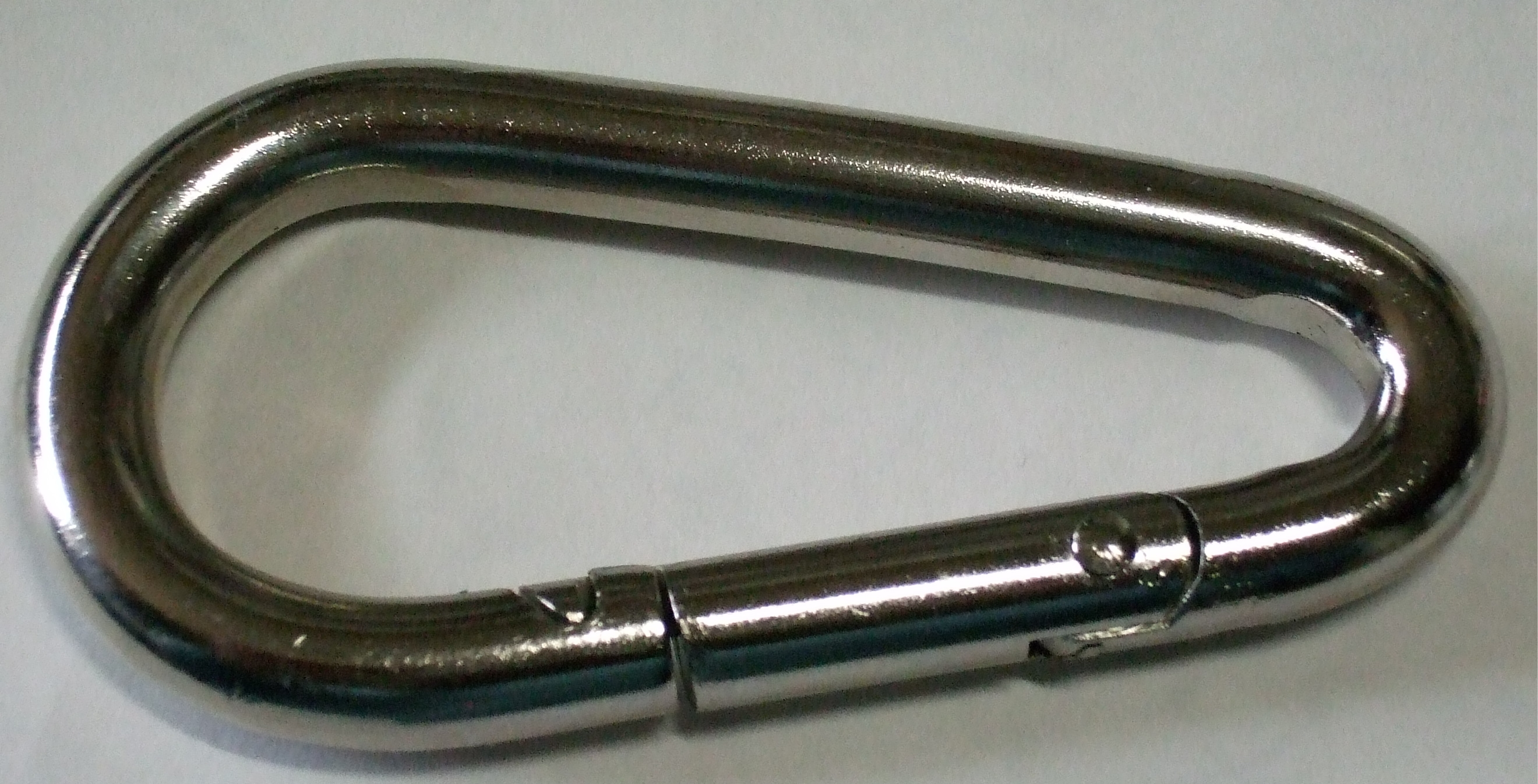 A nasukan for the stay of radio antennae.